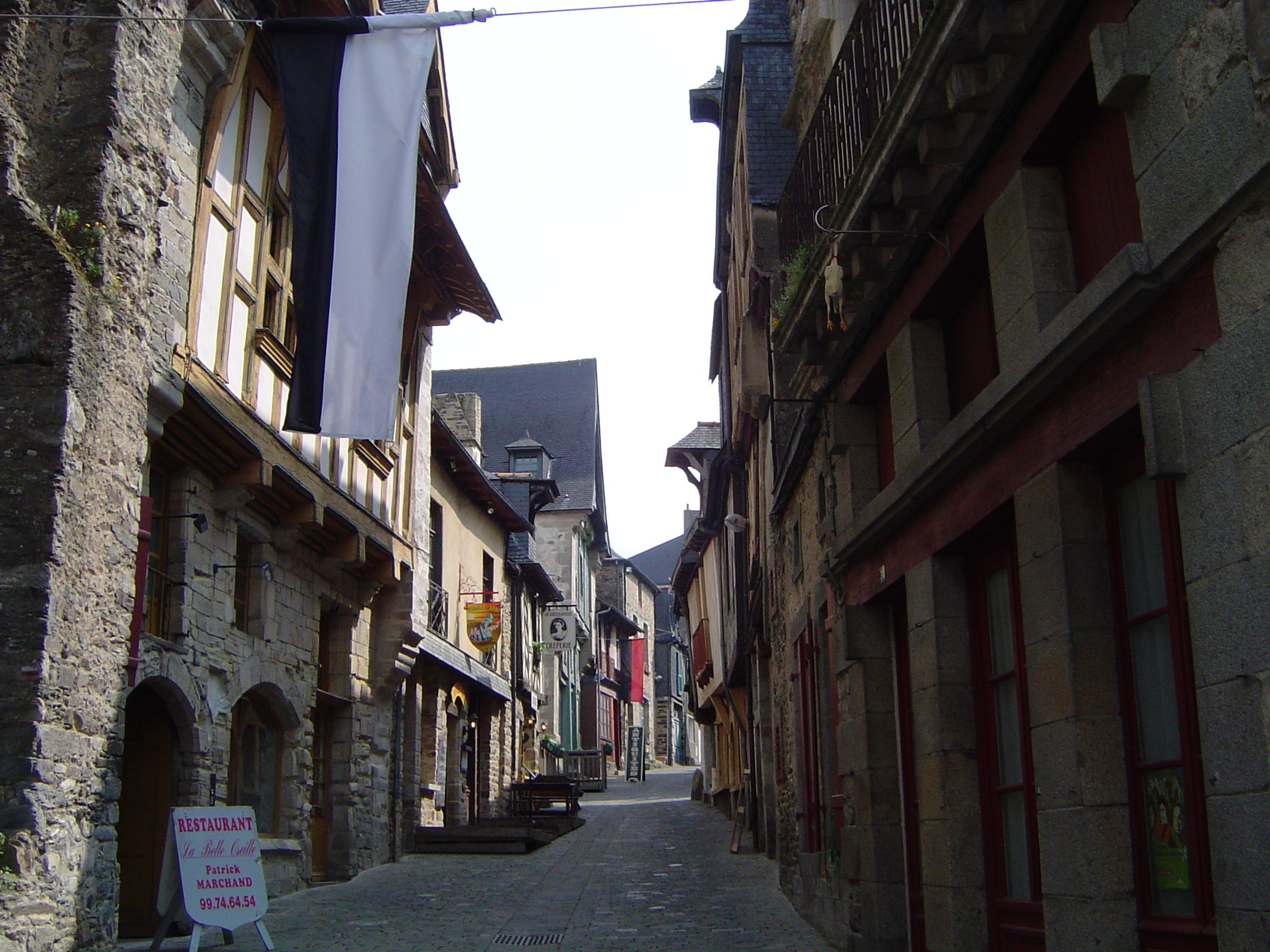 Medieval Street in Vitré